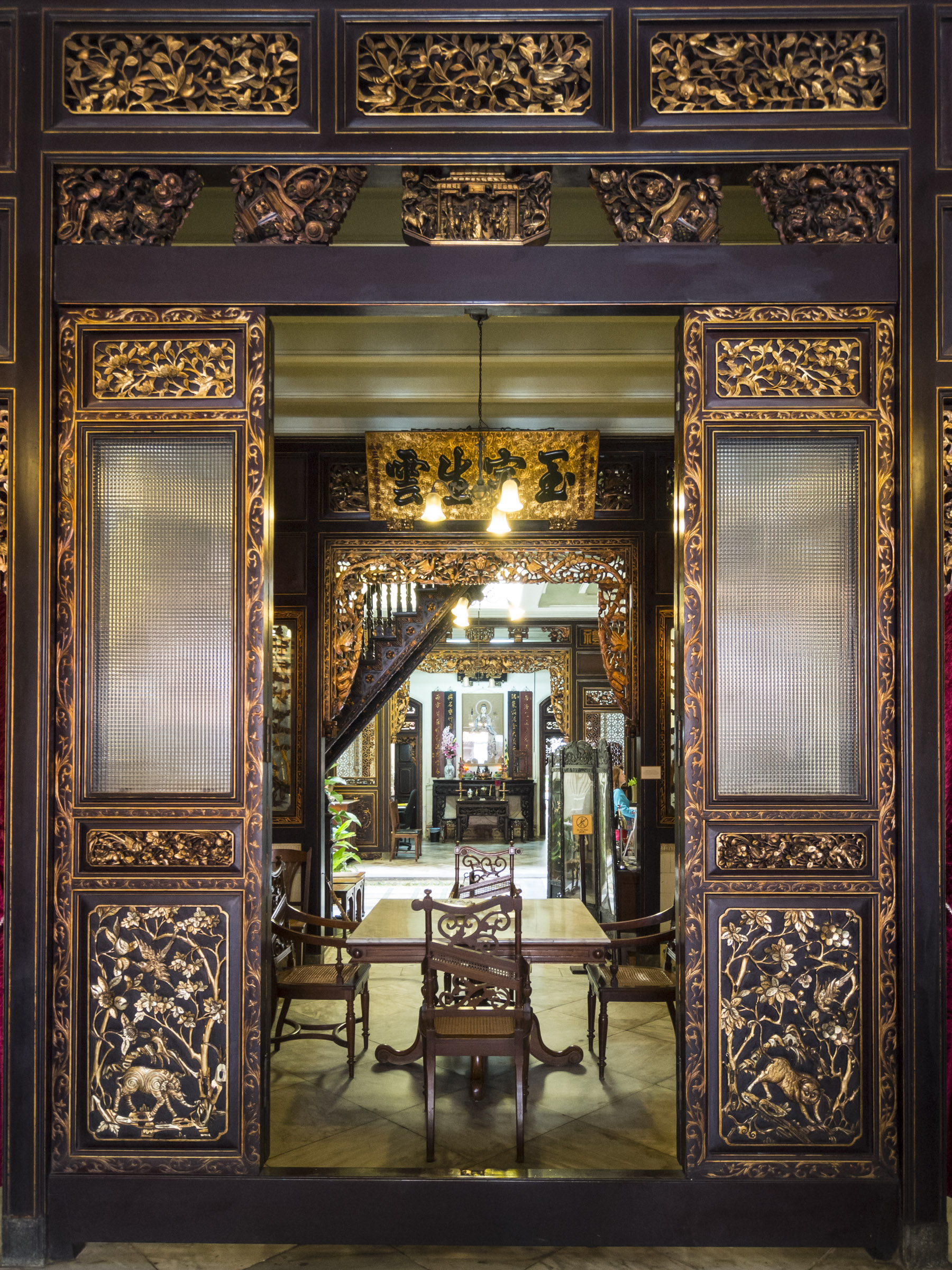 Interior view of main entrance of the Baba and Nyonya House Museum